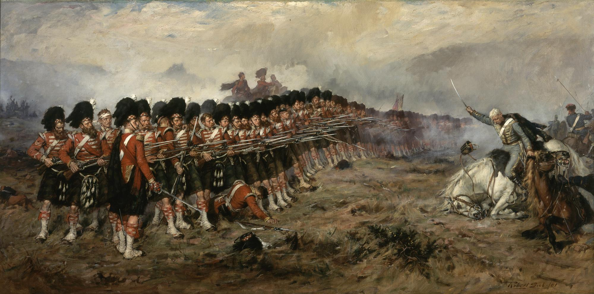 Painting entitled The Thin Red Line, oil on canvas, by Robert Gibb, 1881